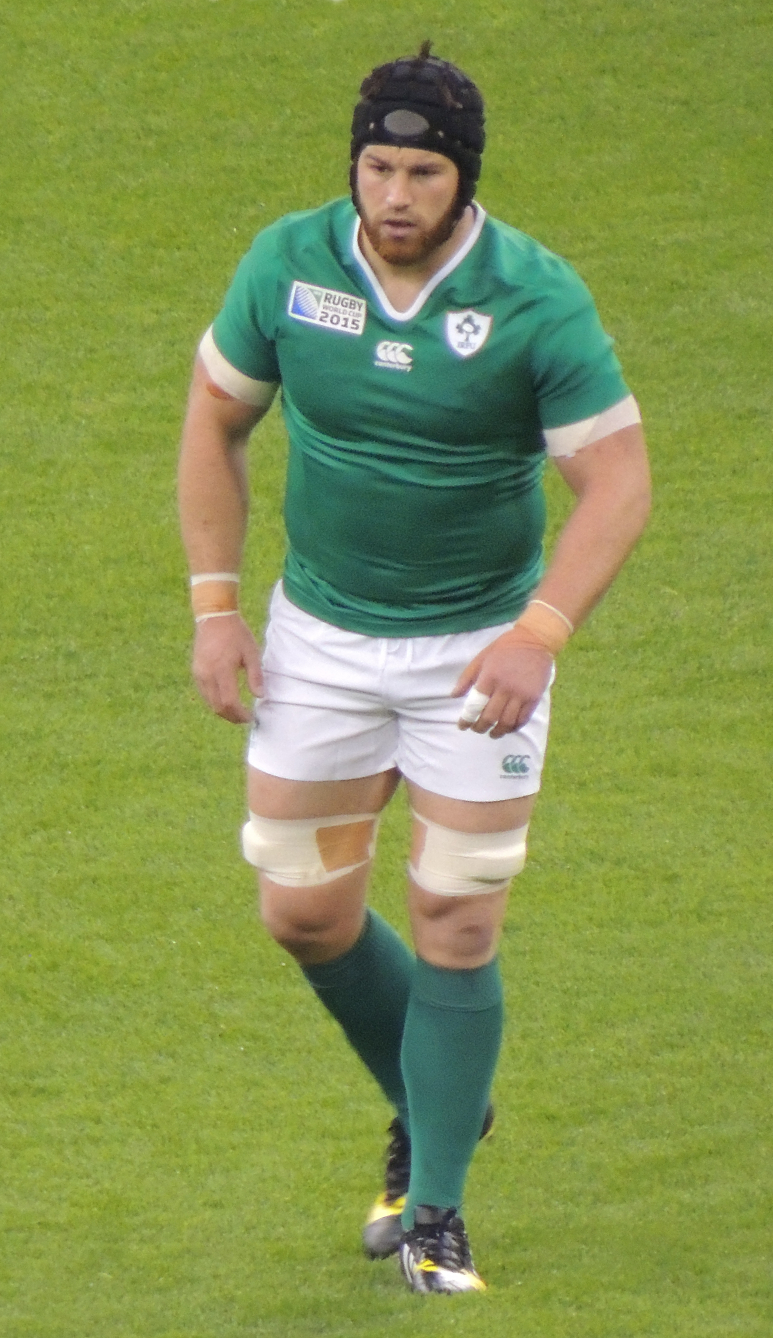 Irish rugby union player Sean O’Brien playing in 2015 Rugby World Cup game Ireland vs Canada at Millennium Stadium in Cardiff.